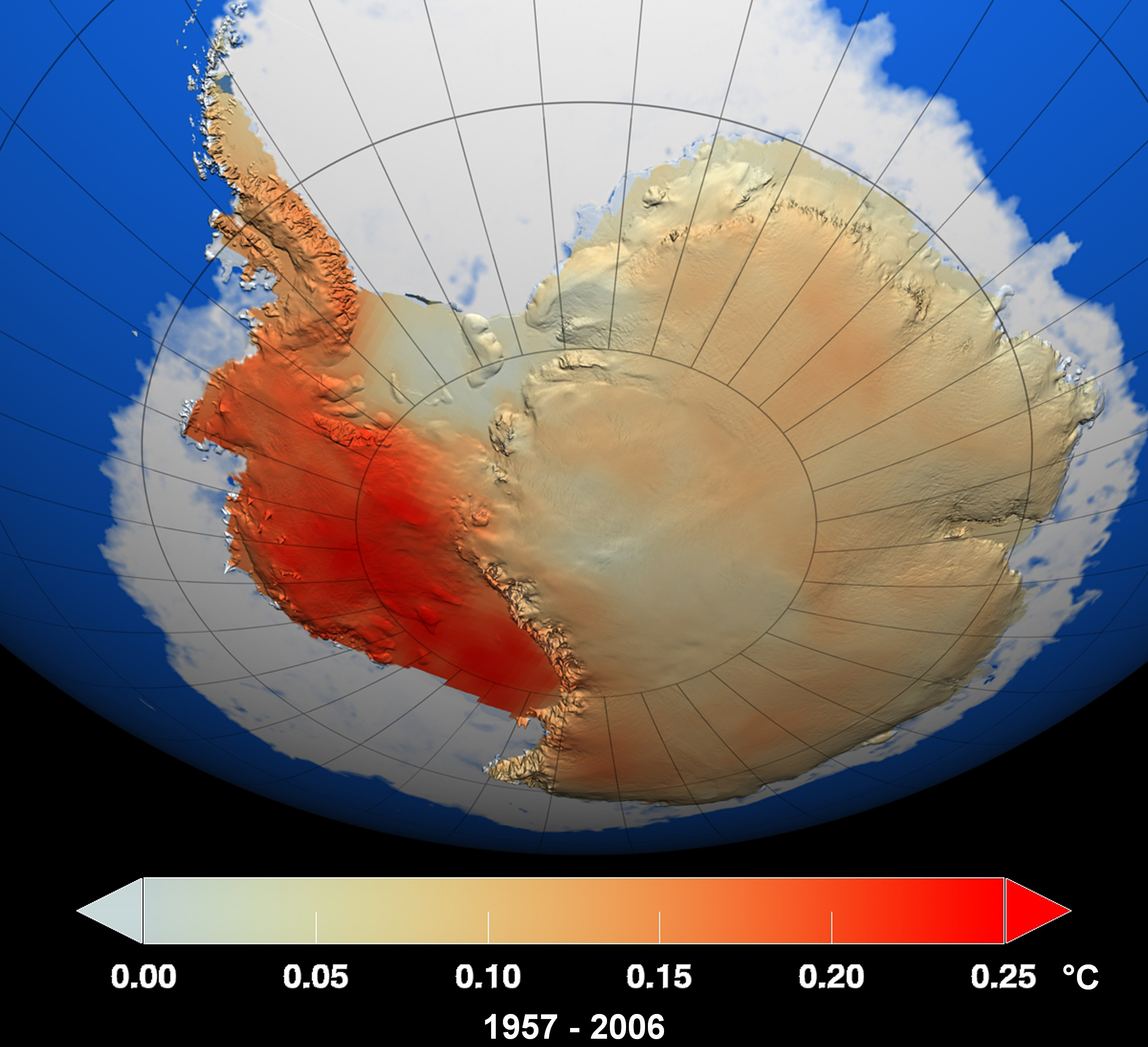 Analysis of weather station and satellite data, showing the continent-wide warming trend from 1957 through 2006. See also: File:AntarcticaTemps 1957-2006.jpg.